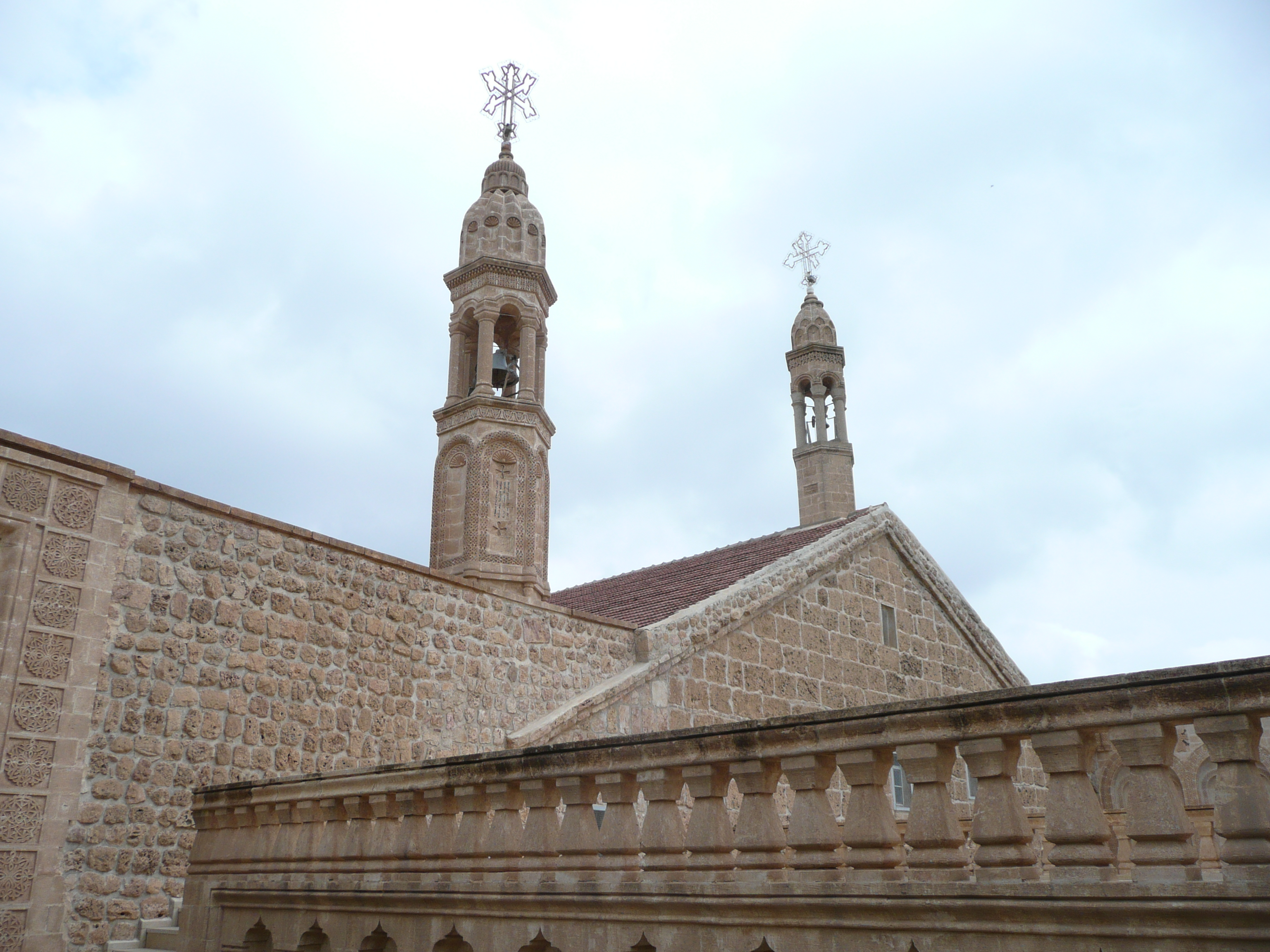 Photographs from Deyrulumur (Mor Gabriel Monastery) , Midyat, Turkey.